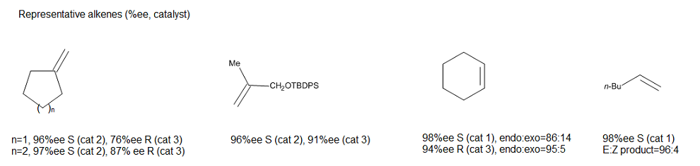 fig 16